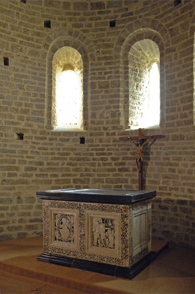 Saint-Guilhem-le-Désert, abbey. France